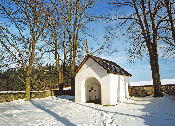 Jewish cemetery in Dřevíkov, Chrudim District, Czech Republic